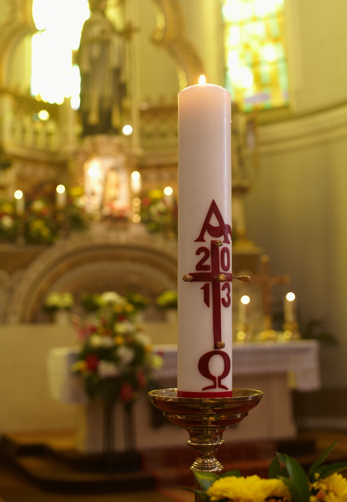 Paschal candle lit in the church of St. John of Nepomuk, Pilsen, the Czech Republic, Easter 2013